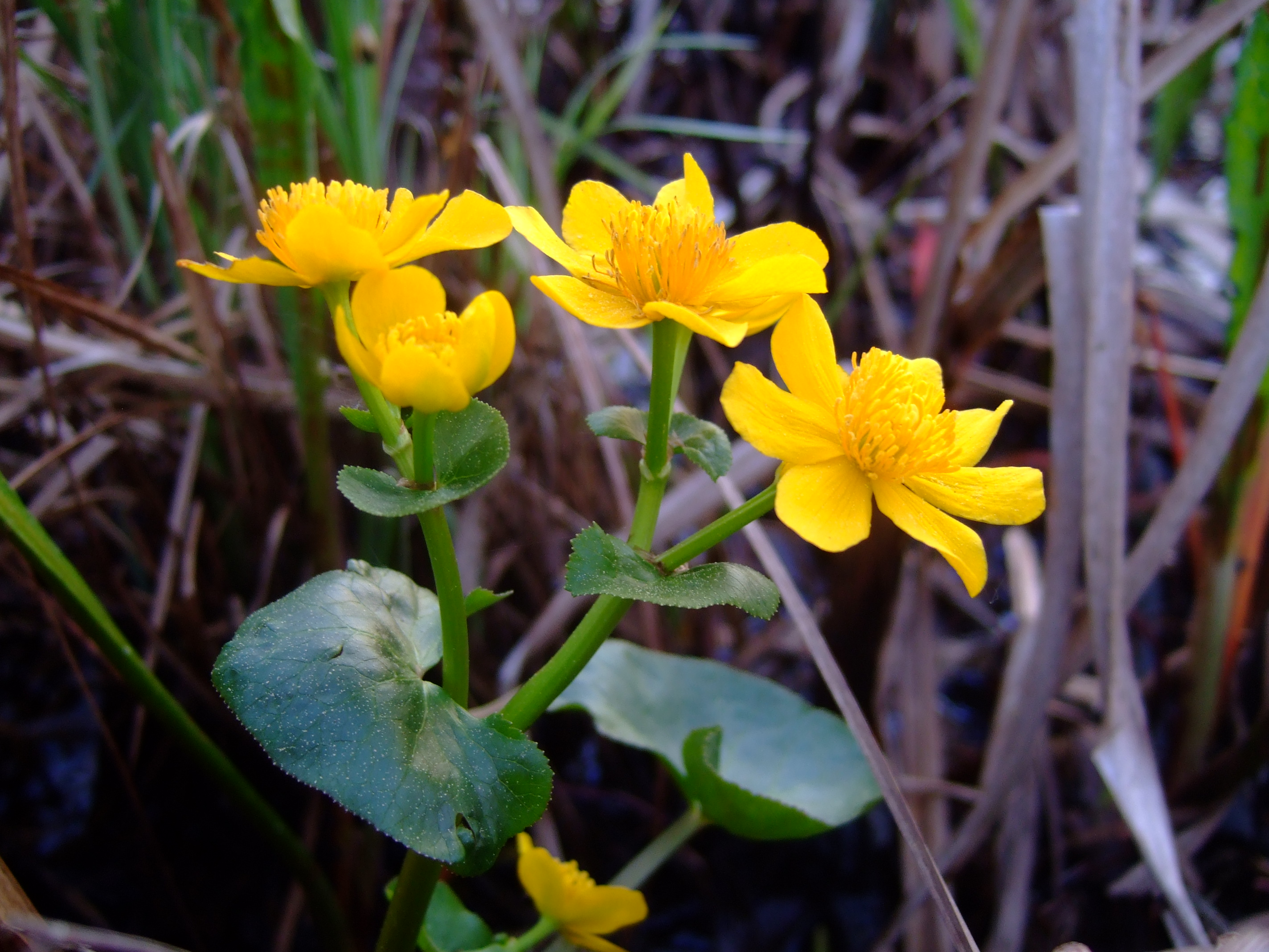 Marsh Marigold in Kirchwerder, Hamburg.